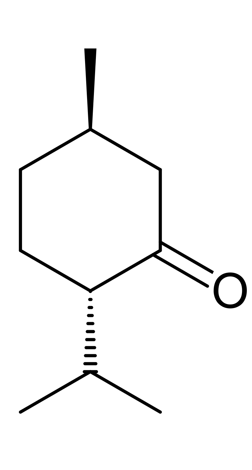 Chemical structure of menthone created with ChemDraw.